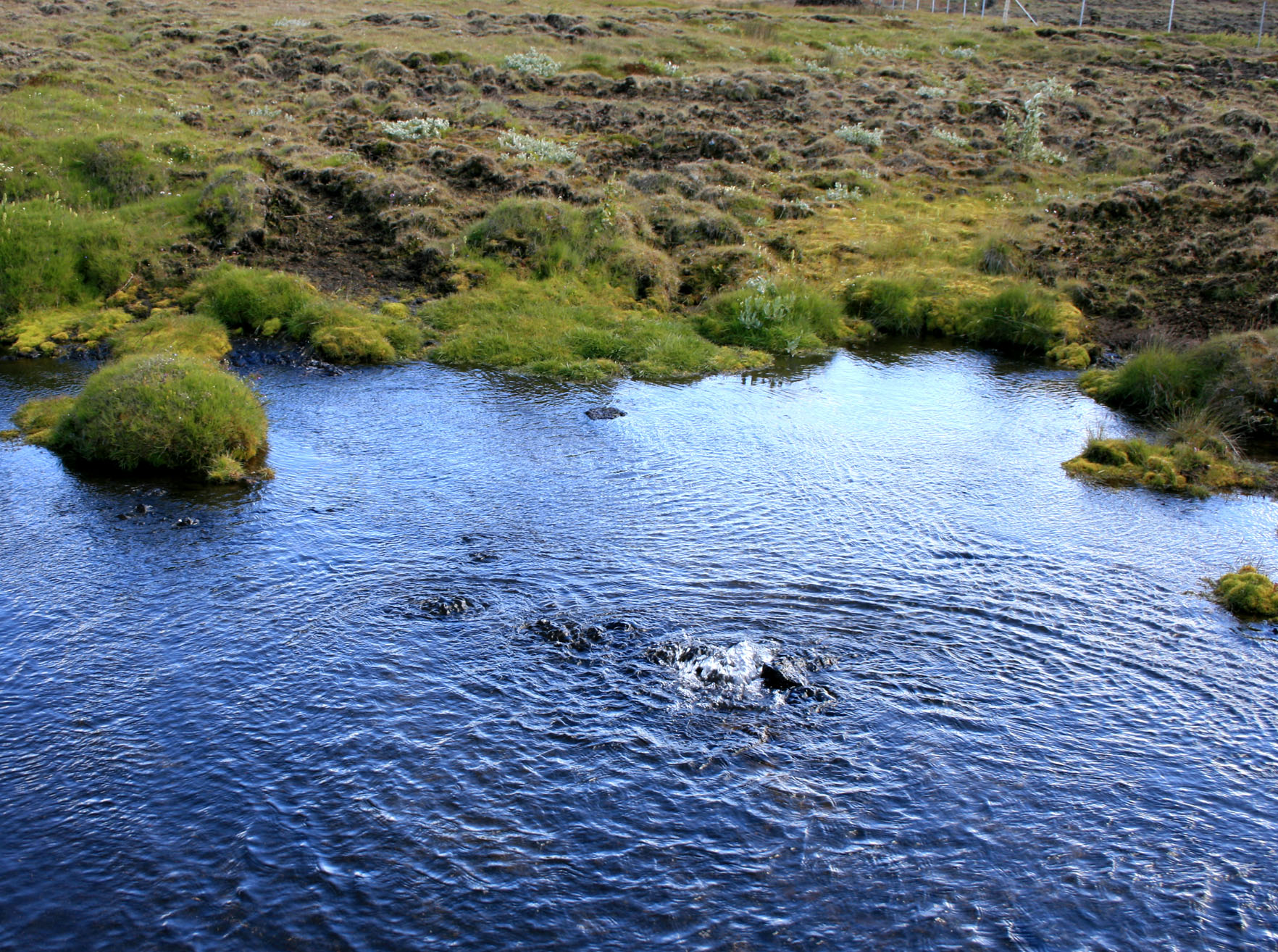 Artesisn spring in an Icelandic lavafield near the farm Galtalækur S-Iceland